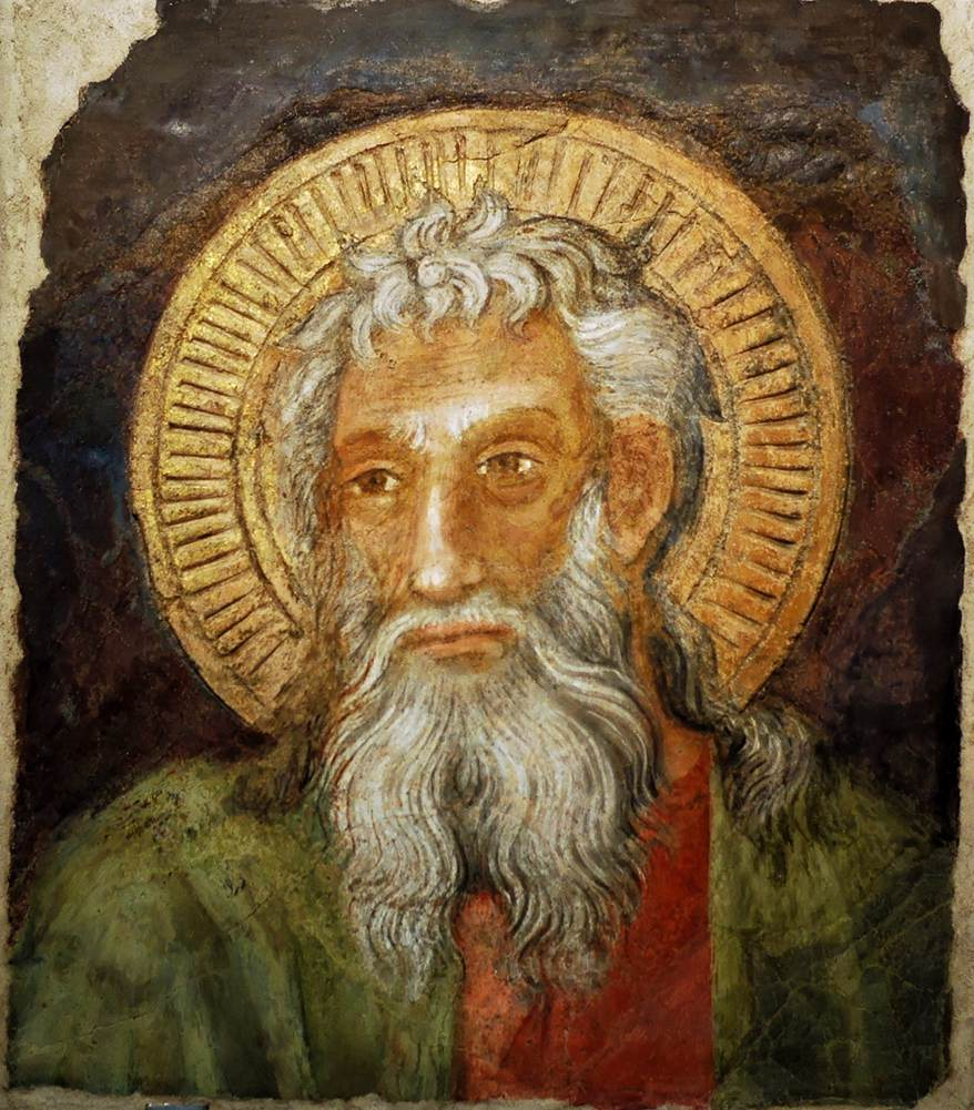 Fragment of a fresco which was removed from the first chapel of the left gallery at the time of the purist restoration of the Duomo of Florence.